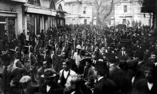 British occupation troops marching in front of the British Embassy